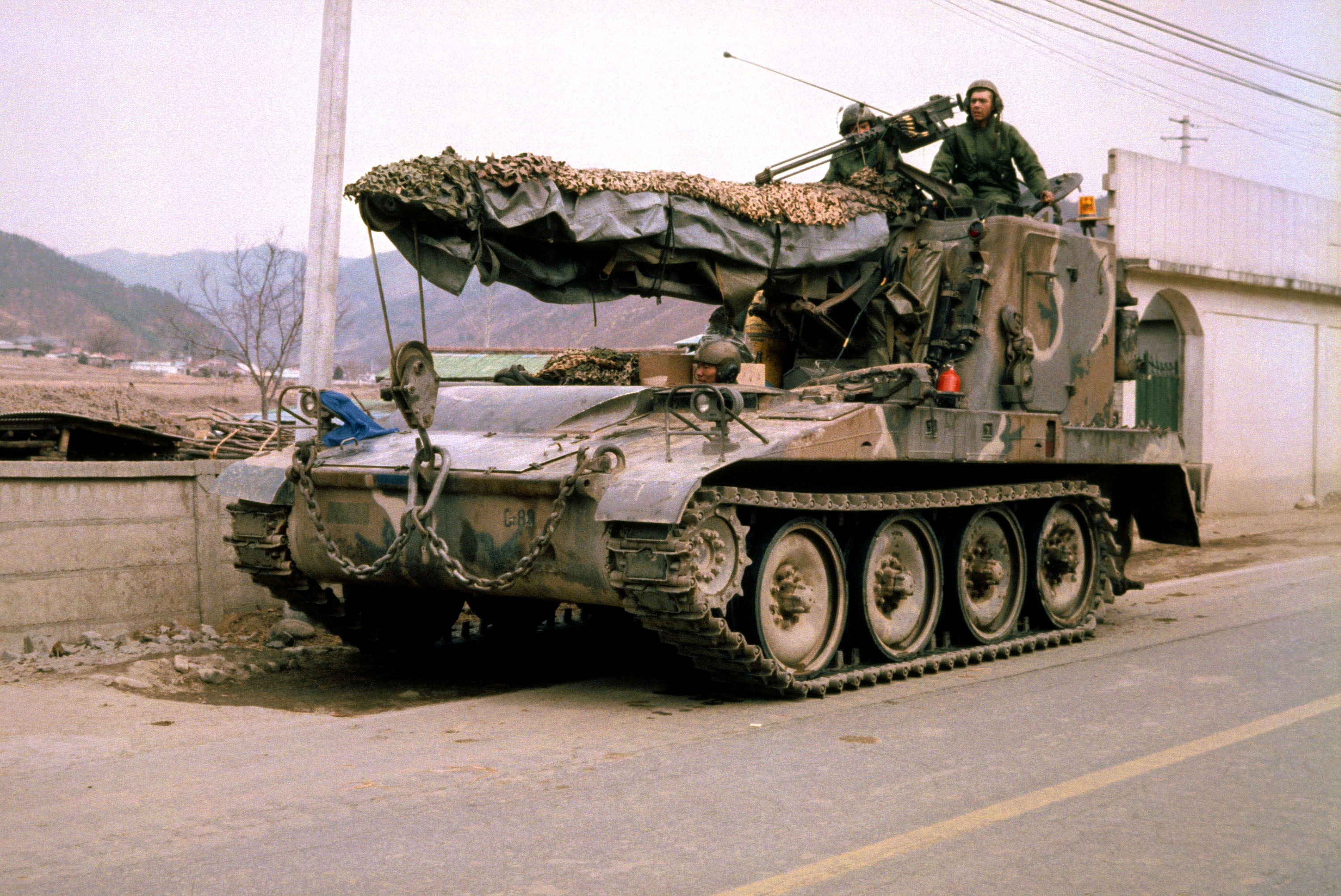 ID: DAST8408923 Service Depicted: Army An M578 armored recovery vehicle armed with a .50-caliber machine gun travels down a road during Exercise TEAM SPIRIT 84.